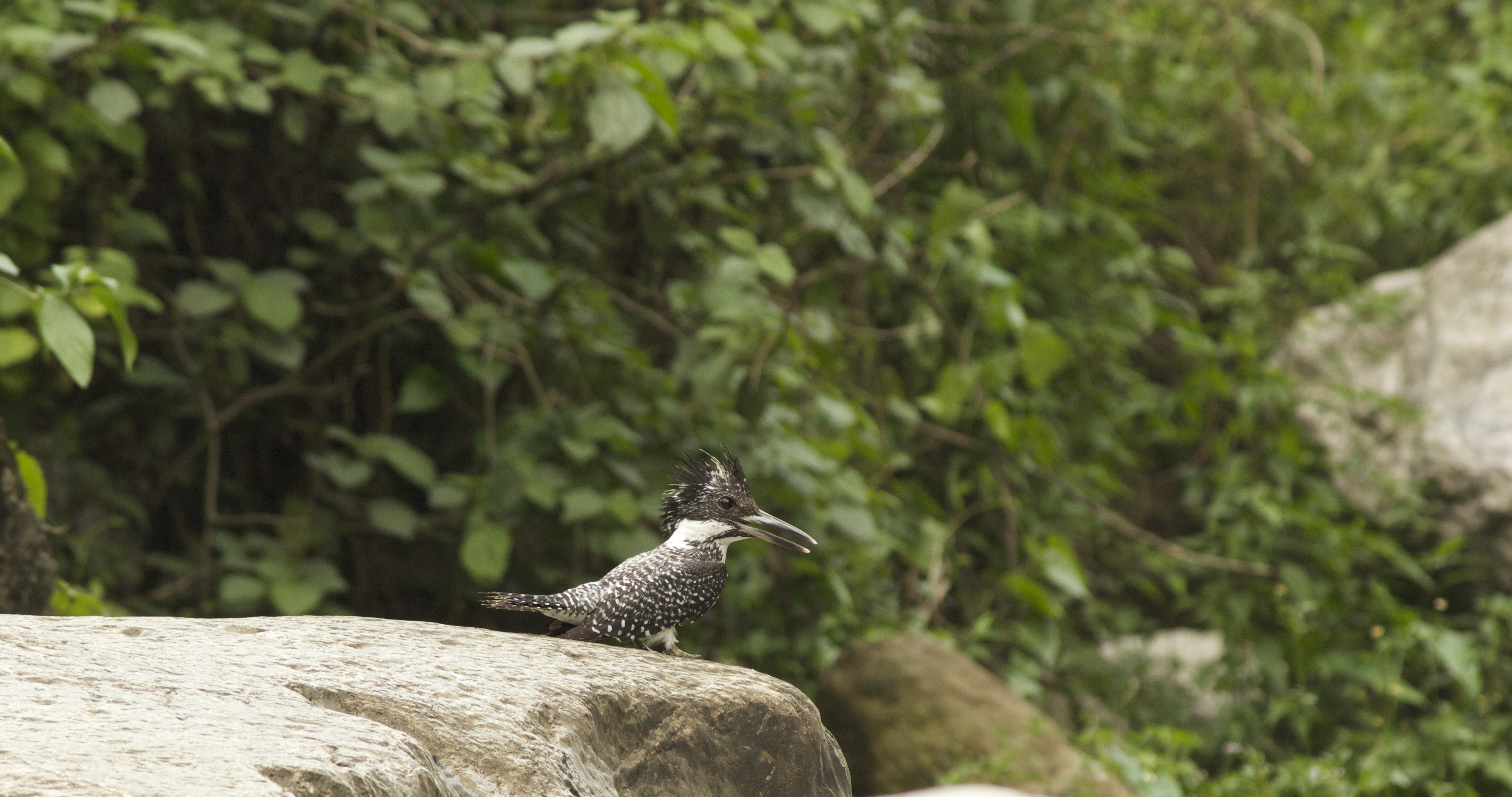 This picture was taken during the project Wiki Loves Butterfly in Buxa Tiger Reserve, Alipurduar.Crested kingfisher (Megaceryle lugubris) (ঝুঁটিত্তয়ালা মাছরাঙা)